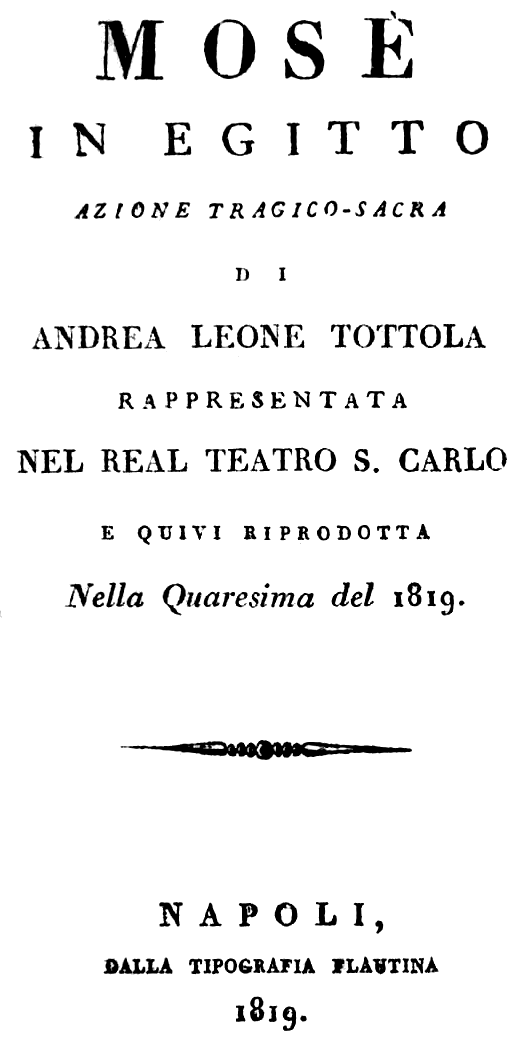 Gioachino Rossini - Mosè in Egitto - titlepage of the libretto - Naples 1819